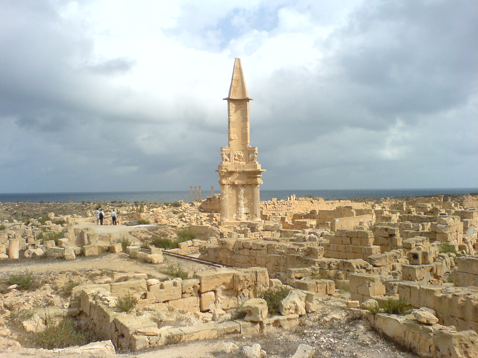 The Mausoleum of Bes, Punic structures in Sabratha (Az Zawiyah, Libya).